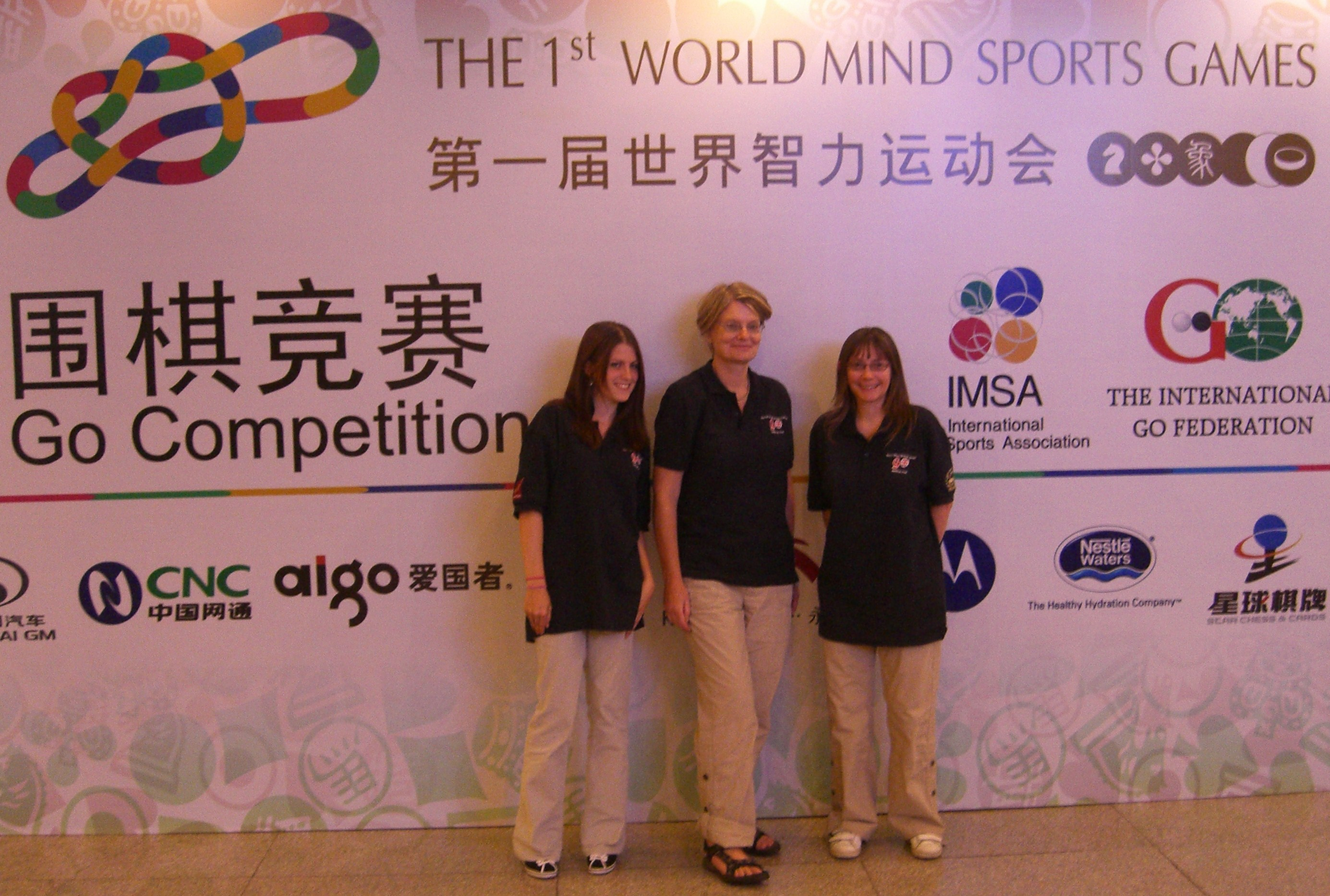 The British_Go_Association UK team of women for the Individual Women's Go_(game) event, at the inaugural World_Mind_Sports_Games held in Beijing in 2008.